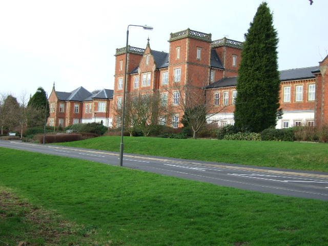 Pastures Hospital at Etwall The former hospital is now part of a major housing development.